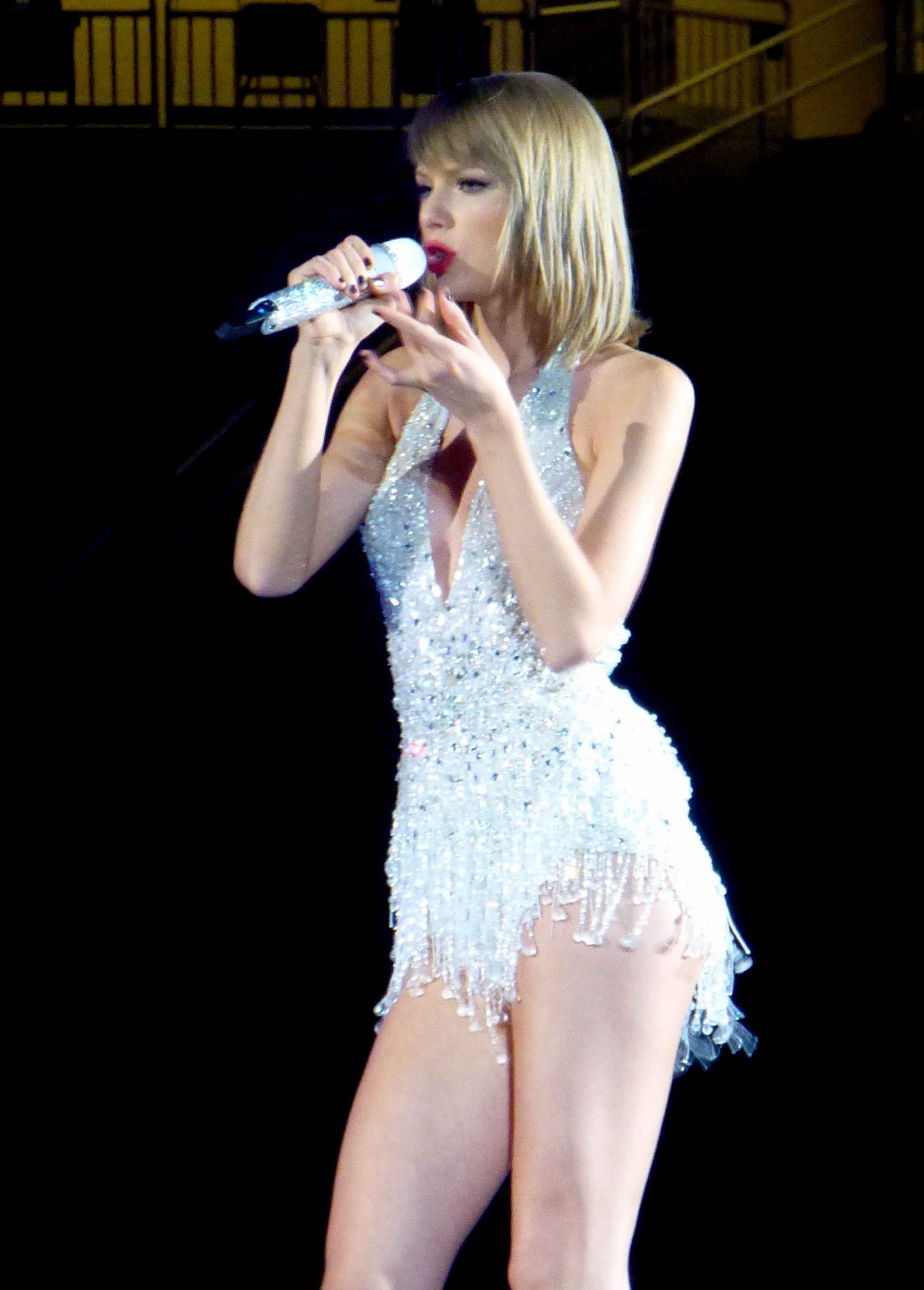 Taylor Swift 1989 Tour at Ford Field in Detroit, 5/30/15